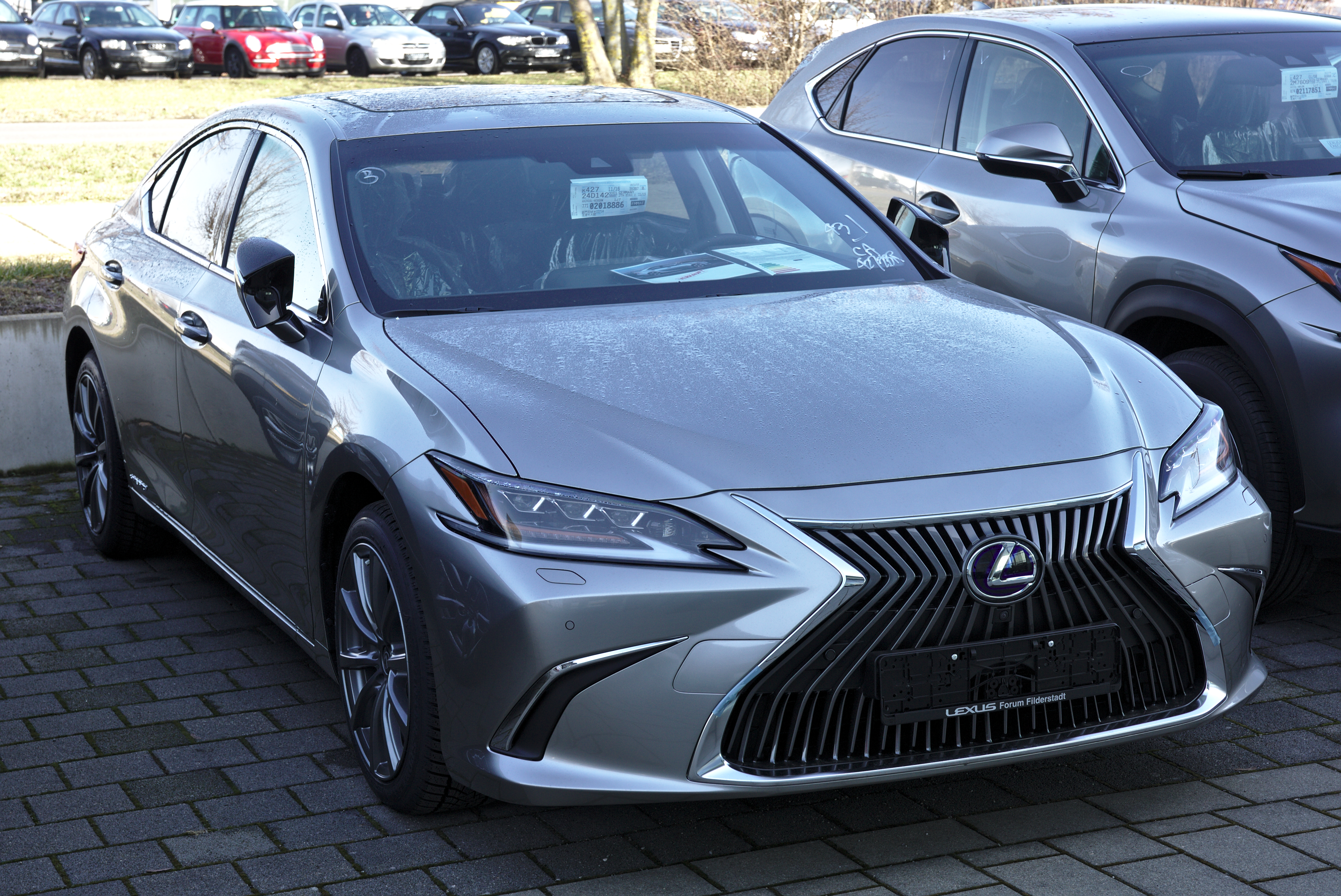 Lexus ES in Filderstadt